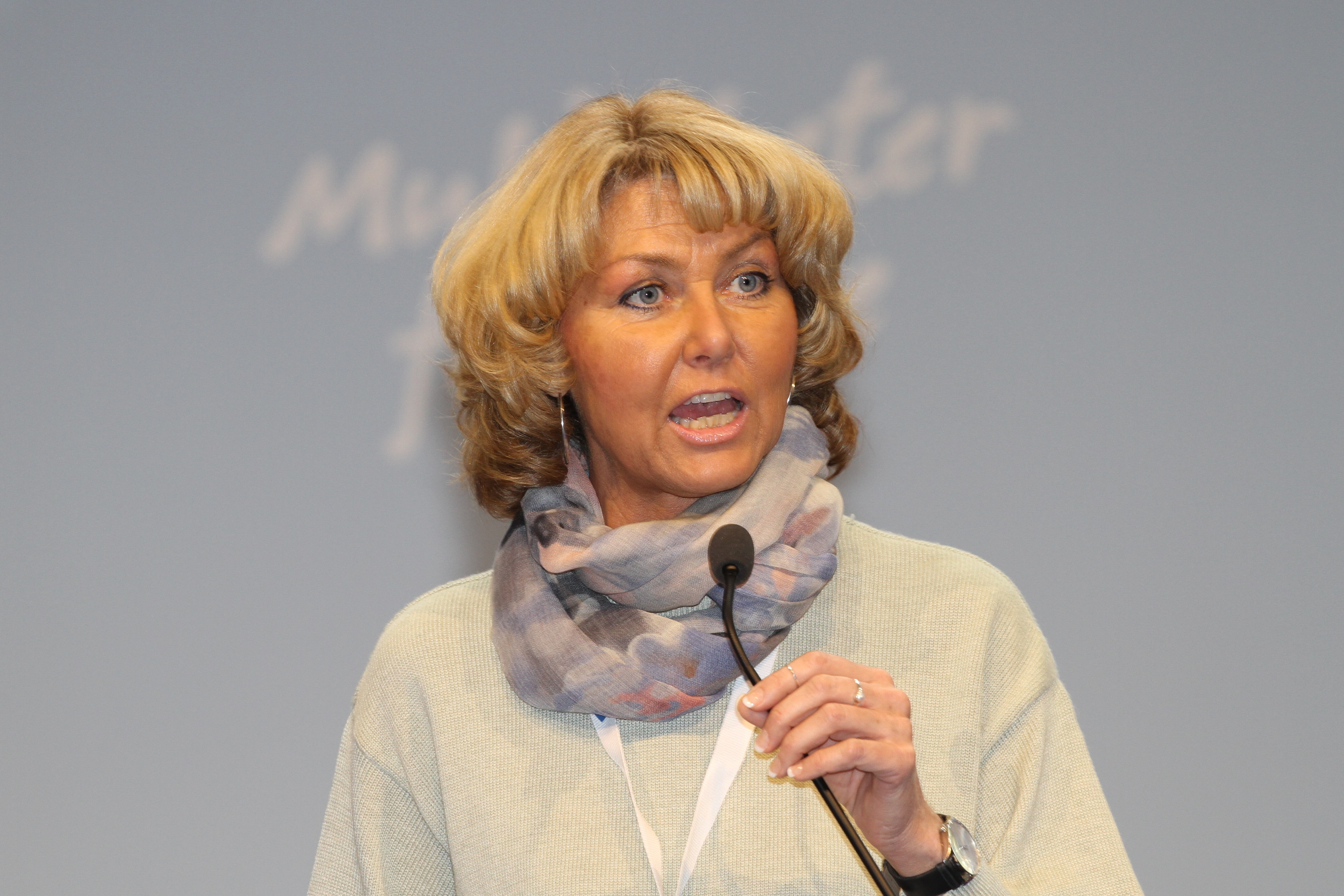 Hanne Alstrup Velure